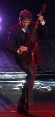 Paul Waaktaar-Savoy performing performing on stage at a-ha's concert in Clyde Auditorium, Glasgow, Scotland (Ending on a High Note tour), 17 November 2010. Cropped from a picture of the whole band, which is also uploaded.